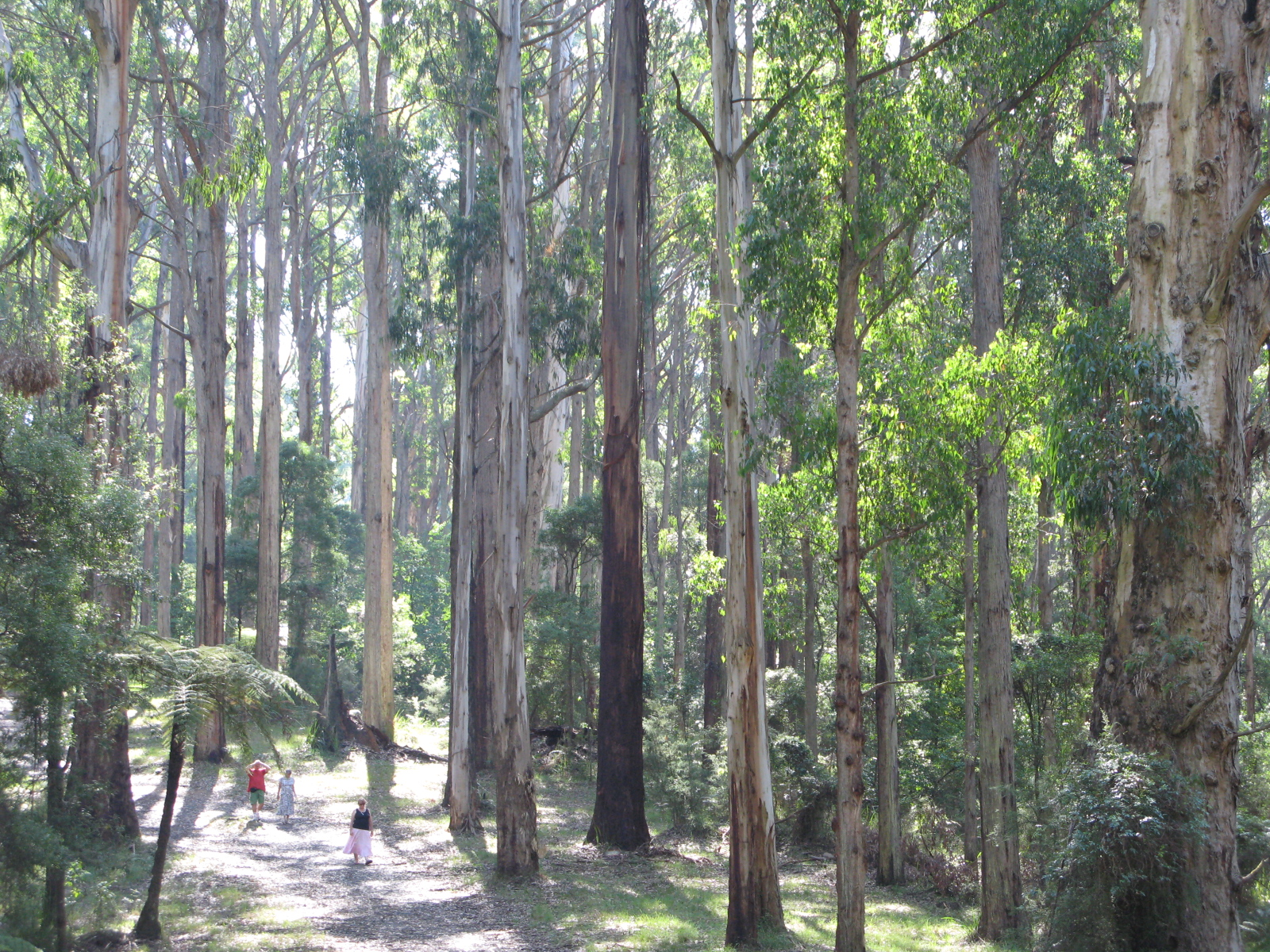 Olinda Forest, near Olinda Falls. Photo taken by Nick carson in 2008.